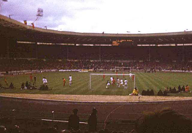 The Charity Shield of 1974 at Wembley Just to spice up this square, here is a shot from inside the old Wembley. This match between Liverpool and Leeds was more remembered for the fight between Bremner and Keegan than Liverpool's 6-5 penalty win.